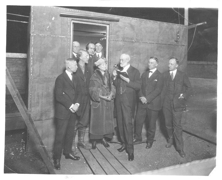 left to right: Nathan O. Fullmer, Anthony W. Ivins, George Albert Smith, two unidentified men (the one wearing earphones may be Harry Carter Wilson), Augusta Winters Grant, Heber J. Grant, C. Clarence Neslen, George J. (“Jack”) Cannon.